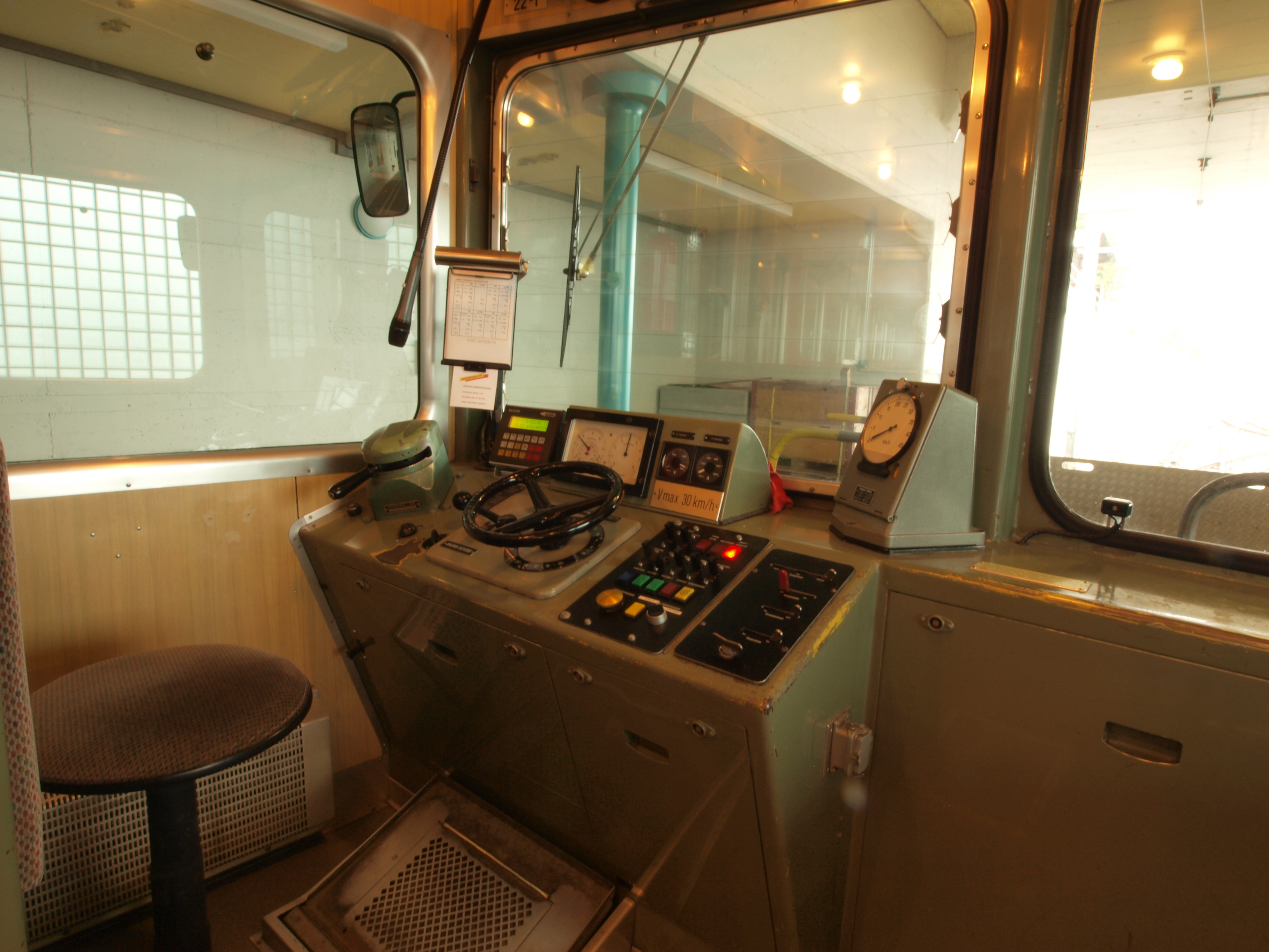 Photographed in Switserland.